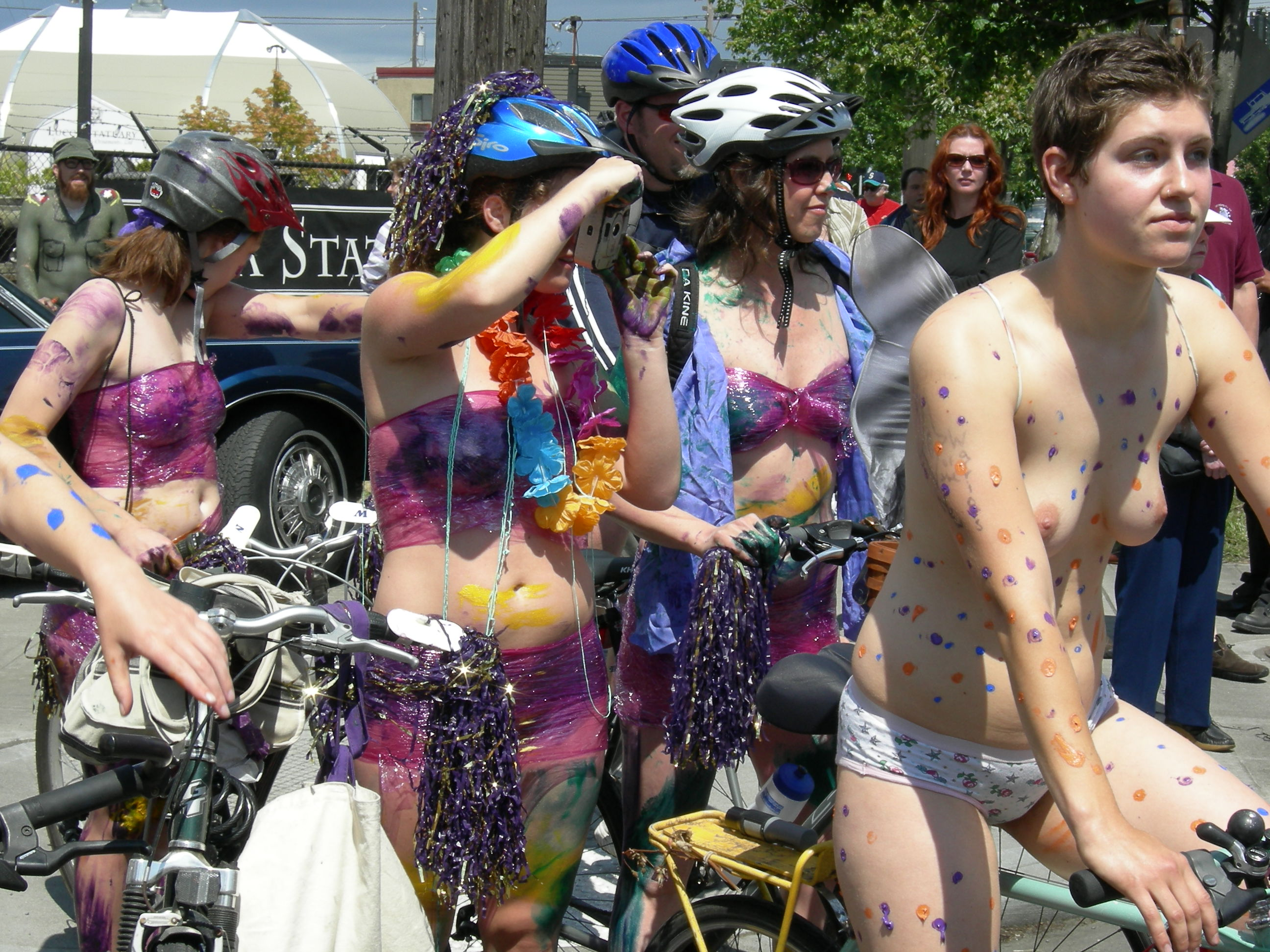 Body-painted naked cyclists (OK, this batch aren't quite naked, there's one pair of panties and some plastic wrap) ready for the 2007 Summer Solstice Parade and Pageant, Fremont Fair, Seattle, Washington.